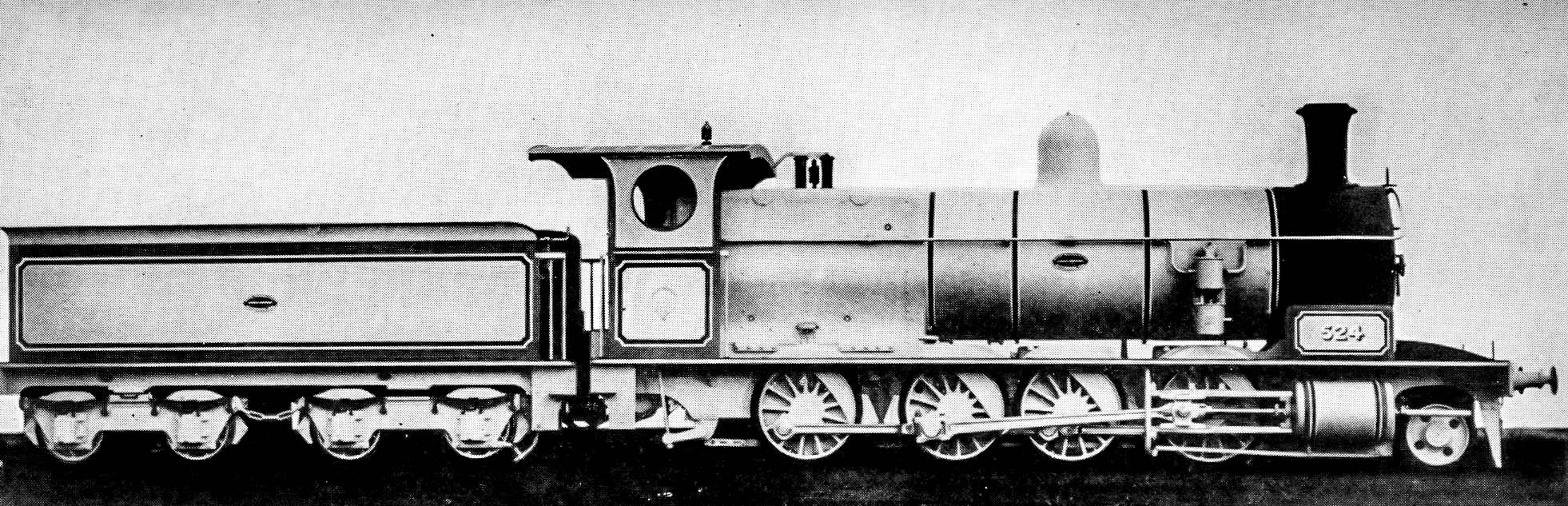 NSWGR Class D50 Locomotive